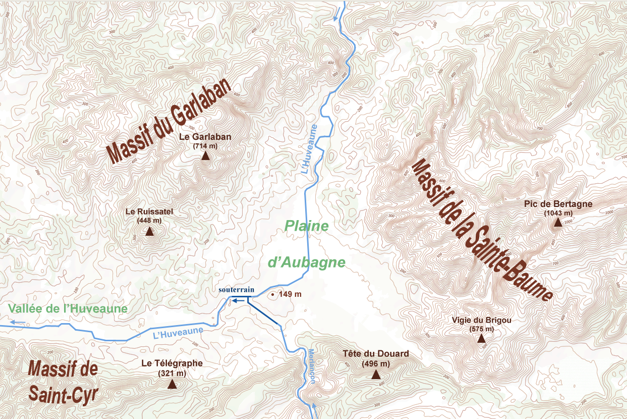 Topography of Aubagne plain